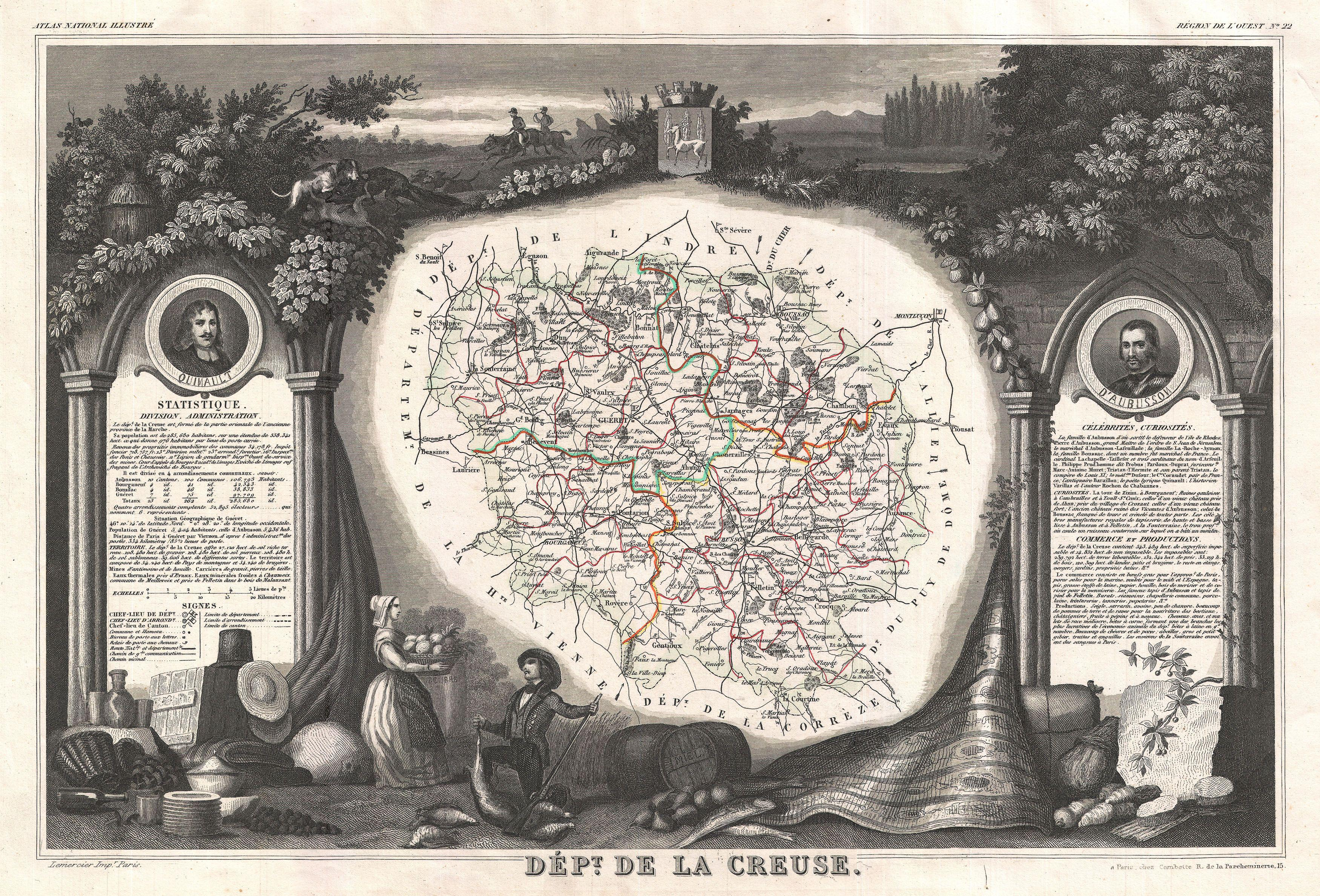 This is a fascinating 1852 map of the French department of Creuse, France. This region is well known for its apple cider made from Limousin apples and its internationally renowned Limousine beef. The whole is surrounded by elaborate decorative engravings designed to illustrate both the natural beauty and trade richness of the land. There is a short textual history of the regions depicted on both the left and right sides of the map. Published by V. Levasseur in the 1852 edition of his Atlas National de la France Illustree.